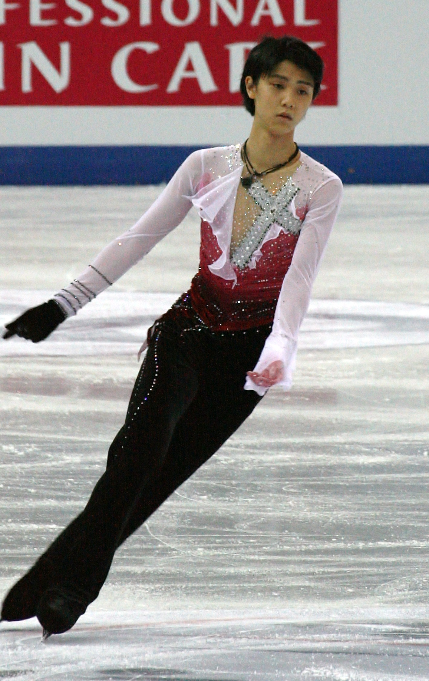 Yuzuru Hanyū. Dec 8 2012, 2012–13 Grand Prix of Figure Skating Final. Sochi, Russia, Iceberg Skating Palace.